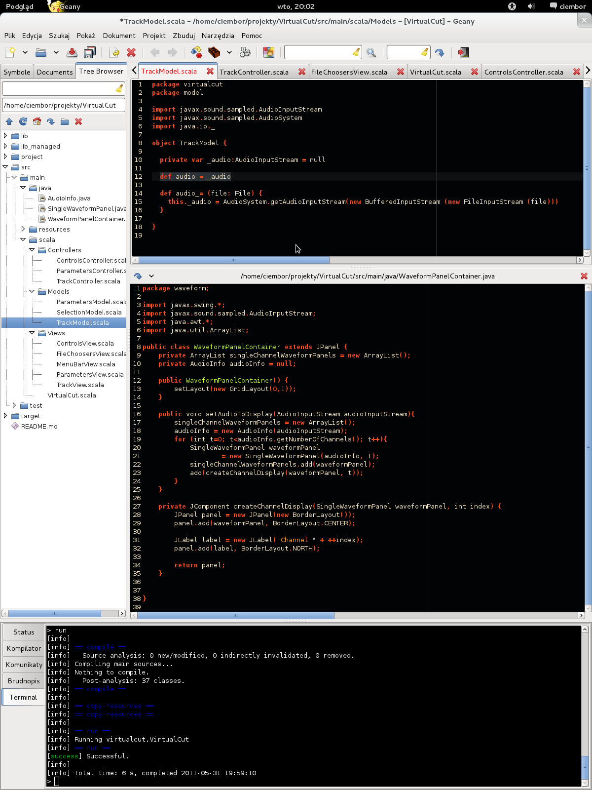 Screenshot of customized Geany editor